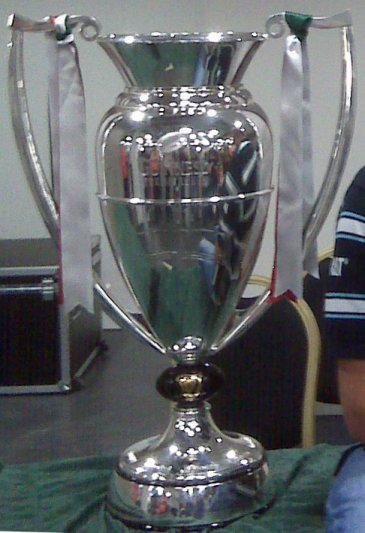 The Guinness Premiership's Trophy